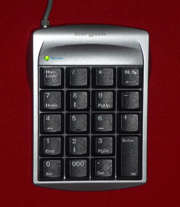 USB numeric keypad as a standalone device